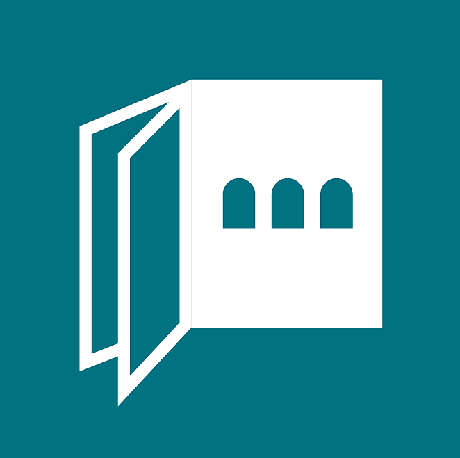 Logo della Fondazione Archivio Diaristico Nazionale onlus